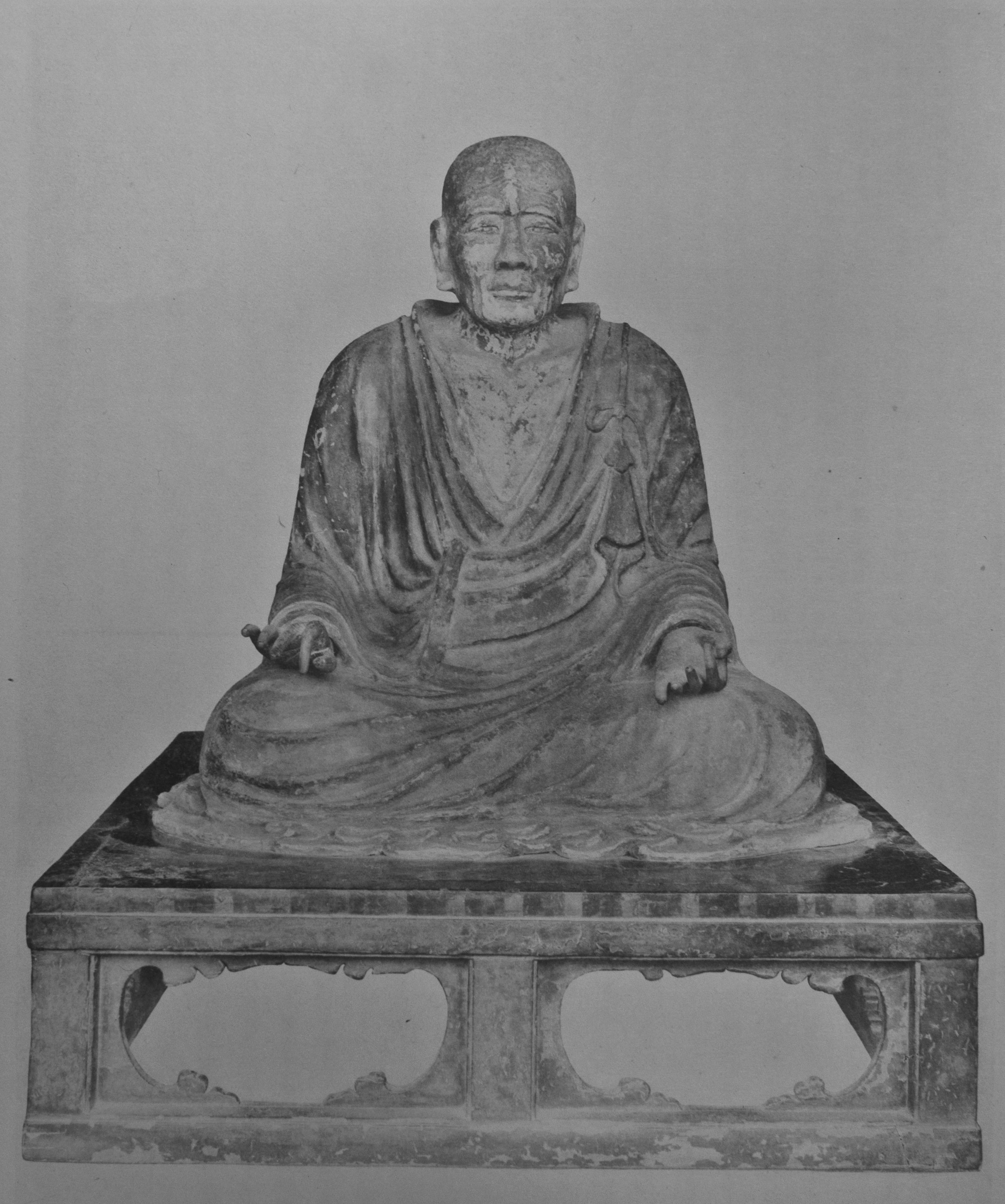 Statue of Dosen (National Treasure), Horyuji, Nara Prefecture, Japan